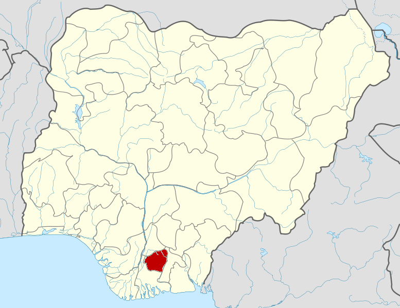 Map locator of Nigeria.